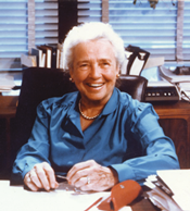 Matilda Riley White at the National Institutes of Health